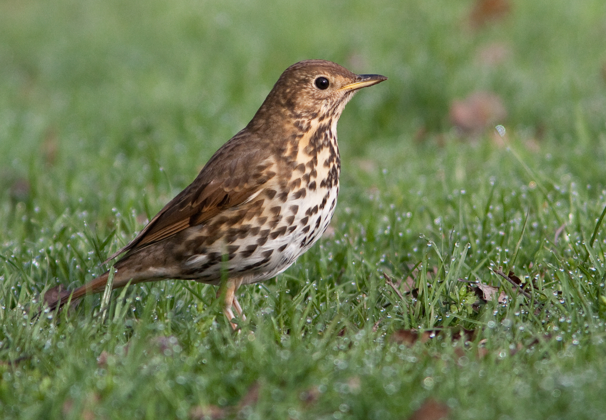 Seen near to the bottom car park at Beacon Hill in Leicestershire.